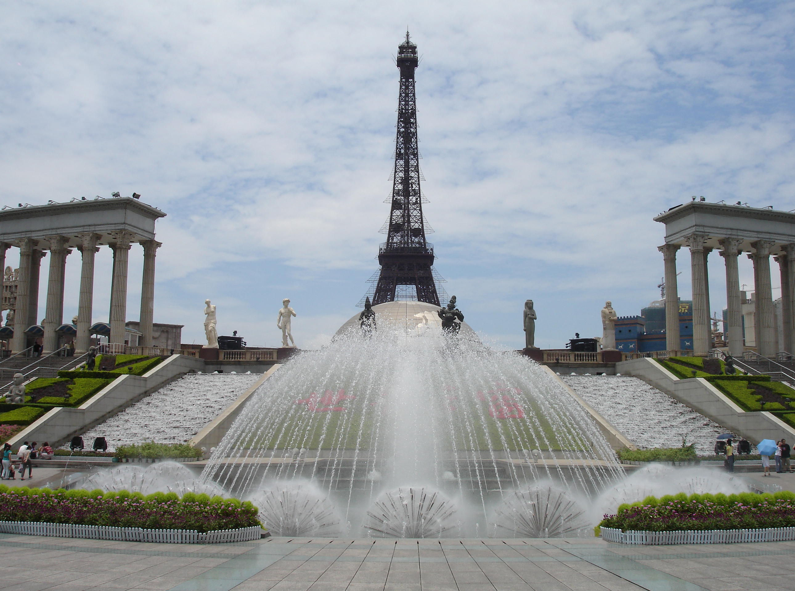 Window of the World Fountain at Shenzhen.